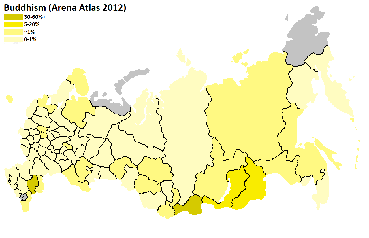 Percentage of Buddhists by region of Russia. Source: "Арена: Атлас религий и национальностей России" (Arena: Atlas of Religions and Nationalities of Russia). Среда (Sreda), 2012. Full publication (PDF). Realised as a extension of the All-Russian Population Census 2010 (Всероссийской переписи населения 2010) and in collaboration with the Russian Ministry of Justice (Минюста РФ).